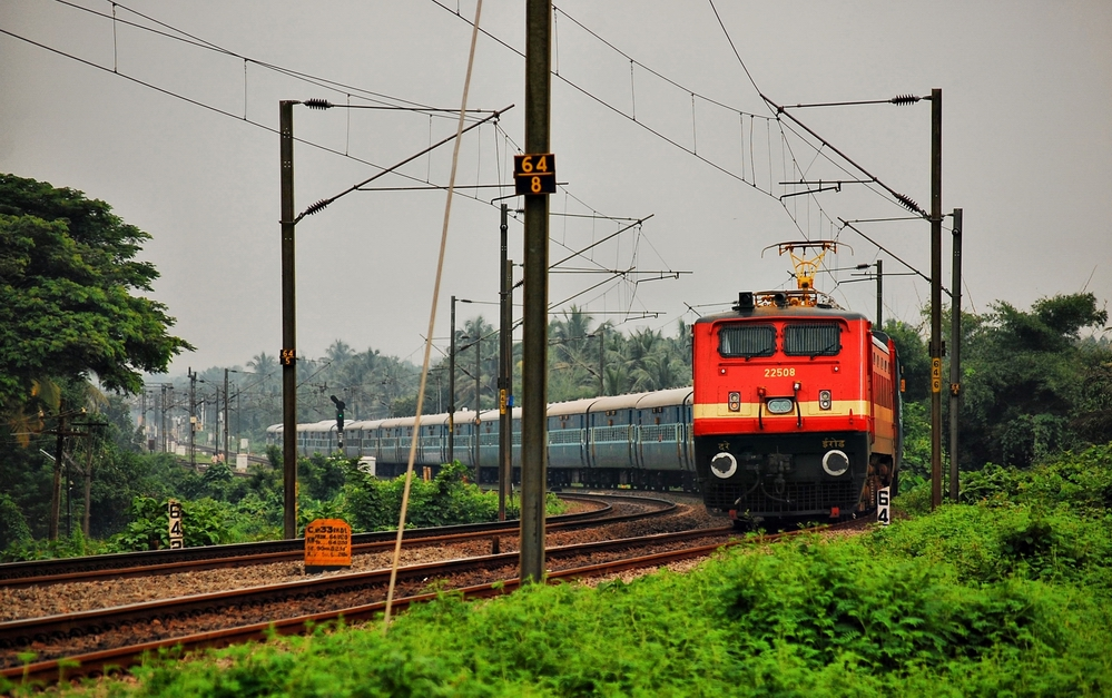 Indian railways